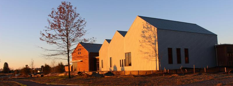 Rear view of the Harriet Tubman Underground Railroad Visitor Center at the Harriet Tubman Underground Railroad State Park in Dorchester County, Maryland, in the United States.